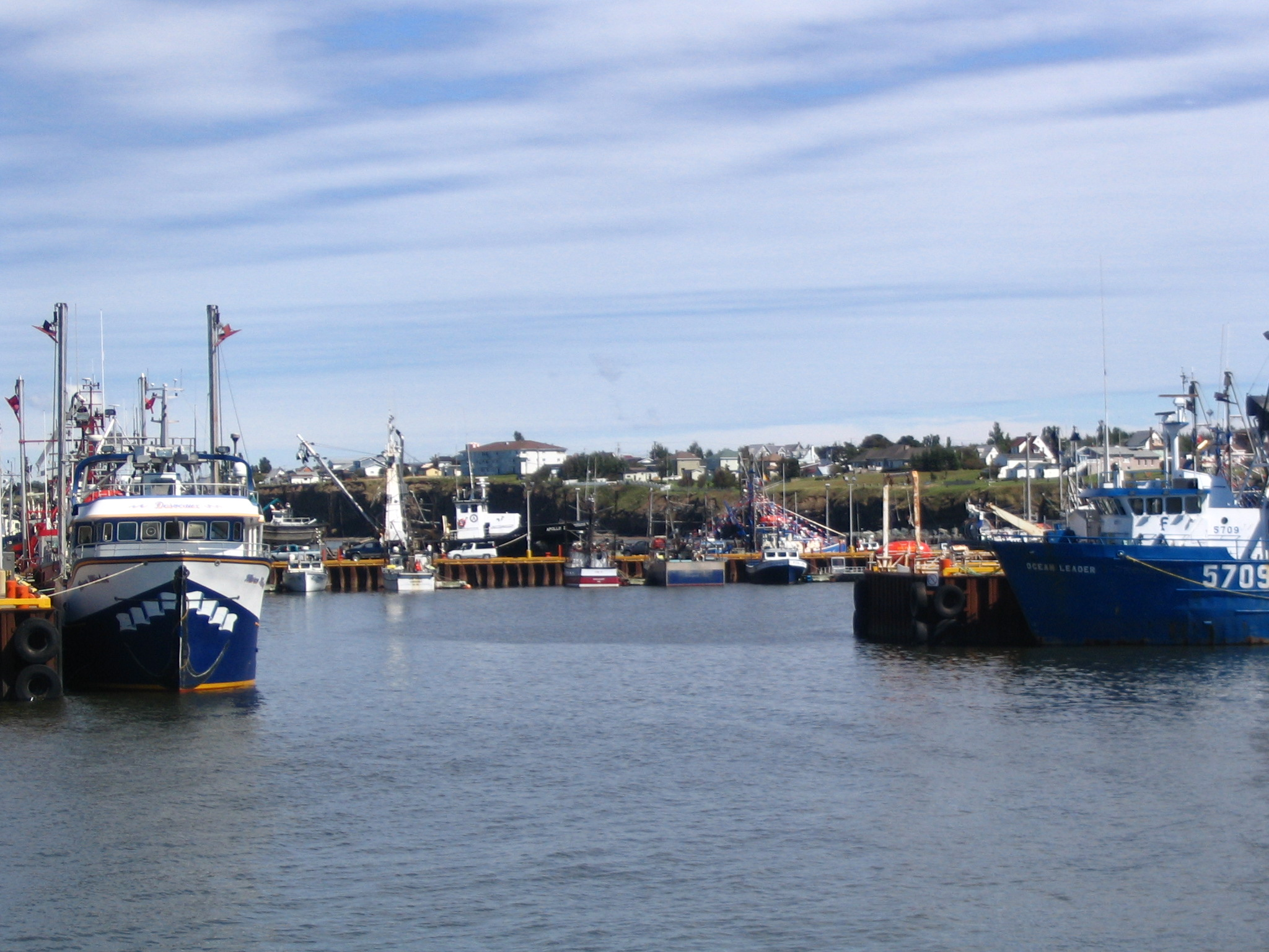 The port of Caraquet, New Brunswick